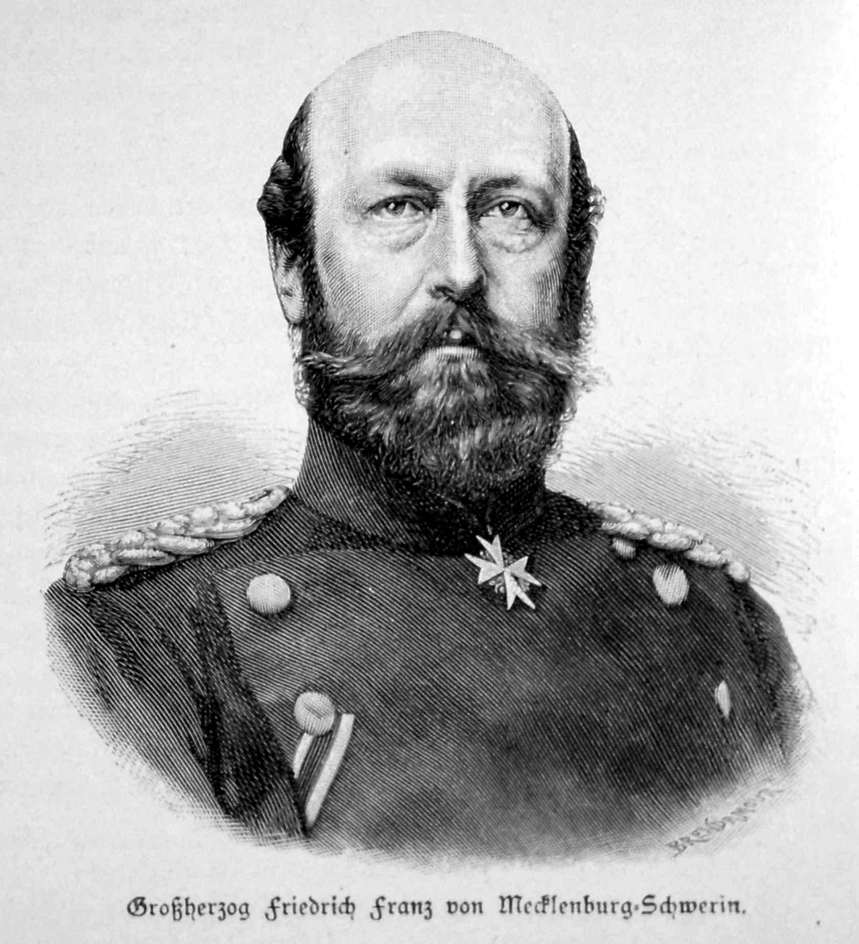 Friedrich Franz II, Grand Duke of Mecklenburg-Schwerin